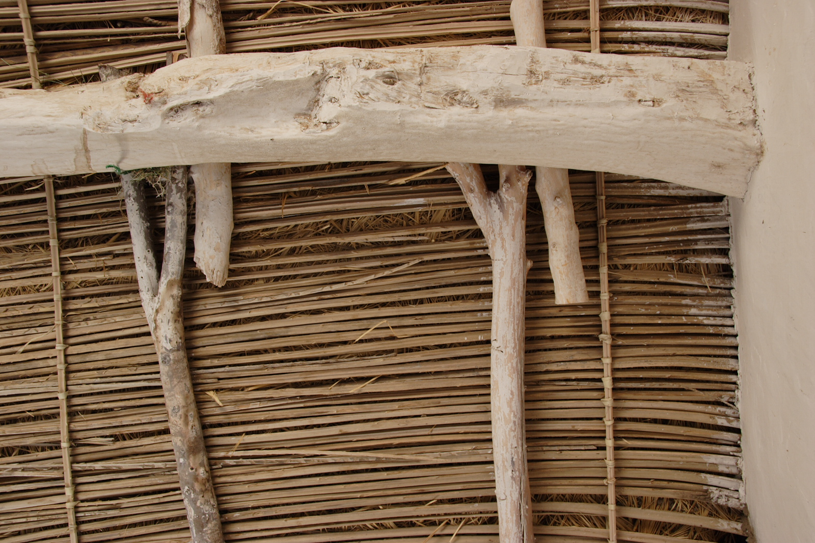 Garidah used for roofing the mud houses (Galus) in Dar al-Manasir, Northern Sudan. Garidah (جريدة) — the midrib part of the palm leaf. In order to be used as a raw material the Garidah is stripped of its leaflets and spikes and its broad petiole is removed. Garidat are an esteemed raw material of the Manasir people.